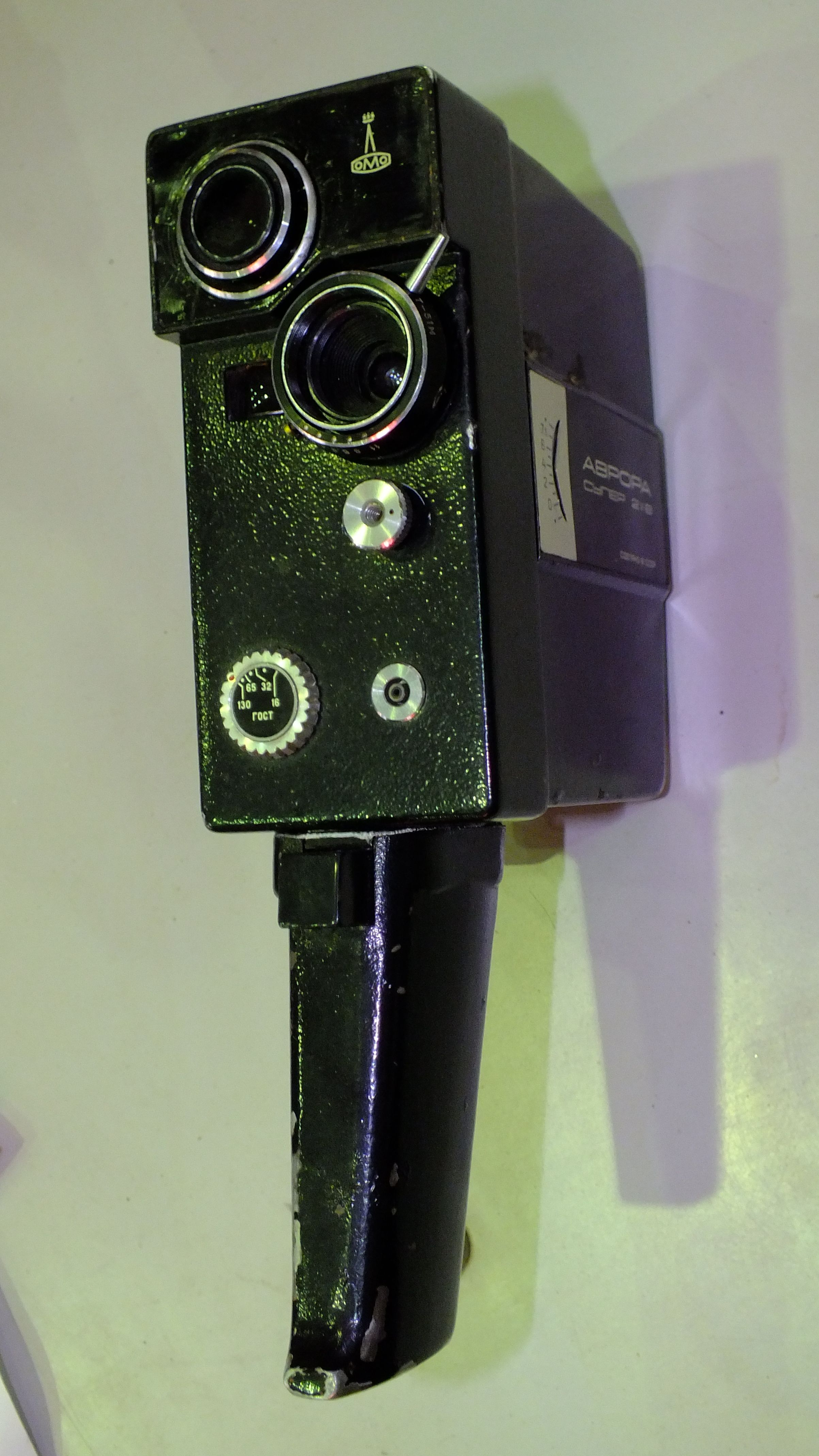 Avrora movie cameras